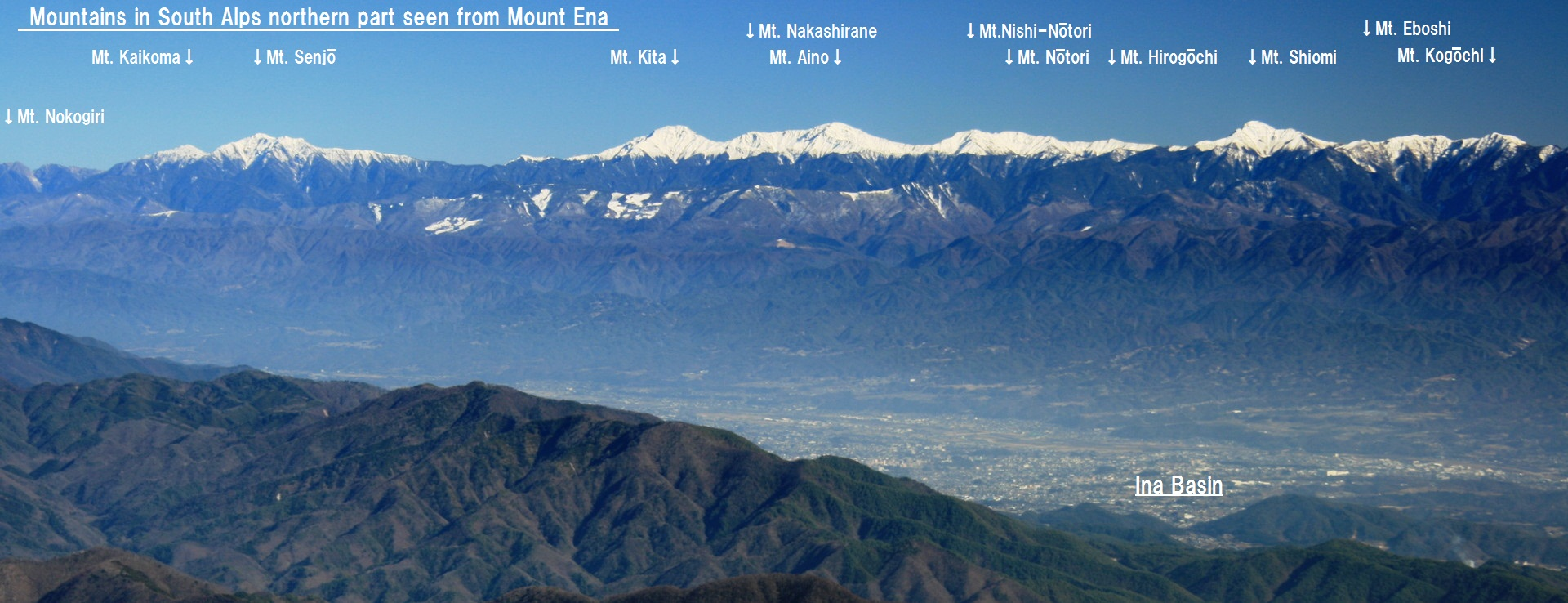 Akaishi Mountains northern part seen from Mount Ena